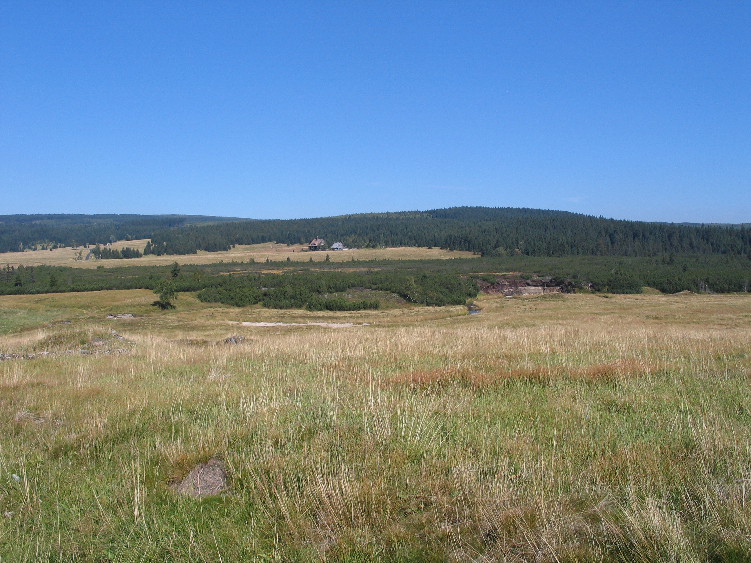 Hala Izerska in Izery Mountains. In the background you can see Hatka Górzystów (Mountaineers Hut.)